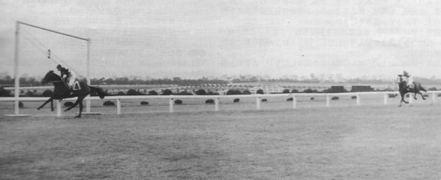 The 16th Kikuka Sho, 1955 Nov.23rd